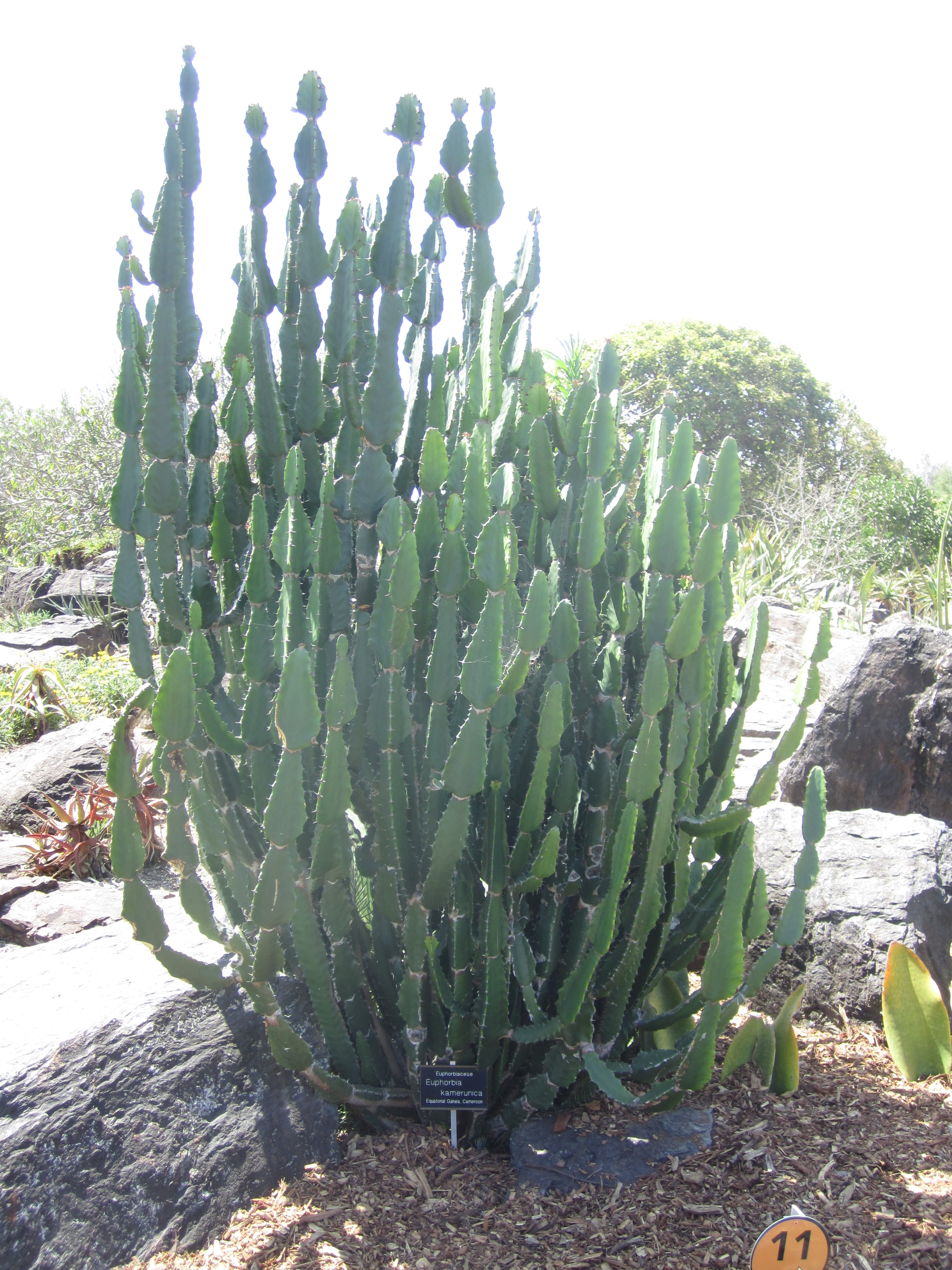 The making of this file was supported by Wikimedia Australia. To see other files made with WM-AU support, please see the category Supported by Wikimedia Australia. Euphorbia kamerunica in the arid plants section of the Mount Coot-tha Botanical Gardens. Photo taken in October (mid spring) of 2012.